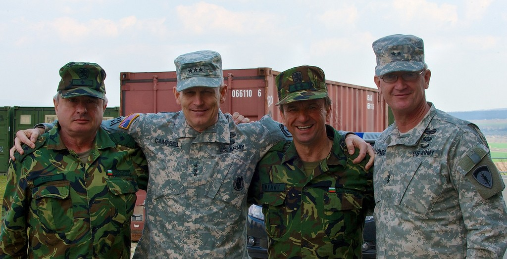 Brig. Gen. Krasimir K. Kanev, (Bulgarian Land Forces) Lt. Gen. Donald M. Campbell, Jr., (USAREUR) Maj. Gen. Neyko N. Nenov, (Bulgarian Land Forces) and Maj. Gen. Richard C. Longo (USAREUR)